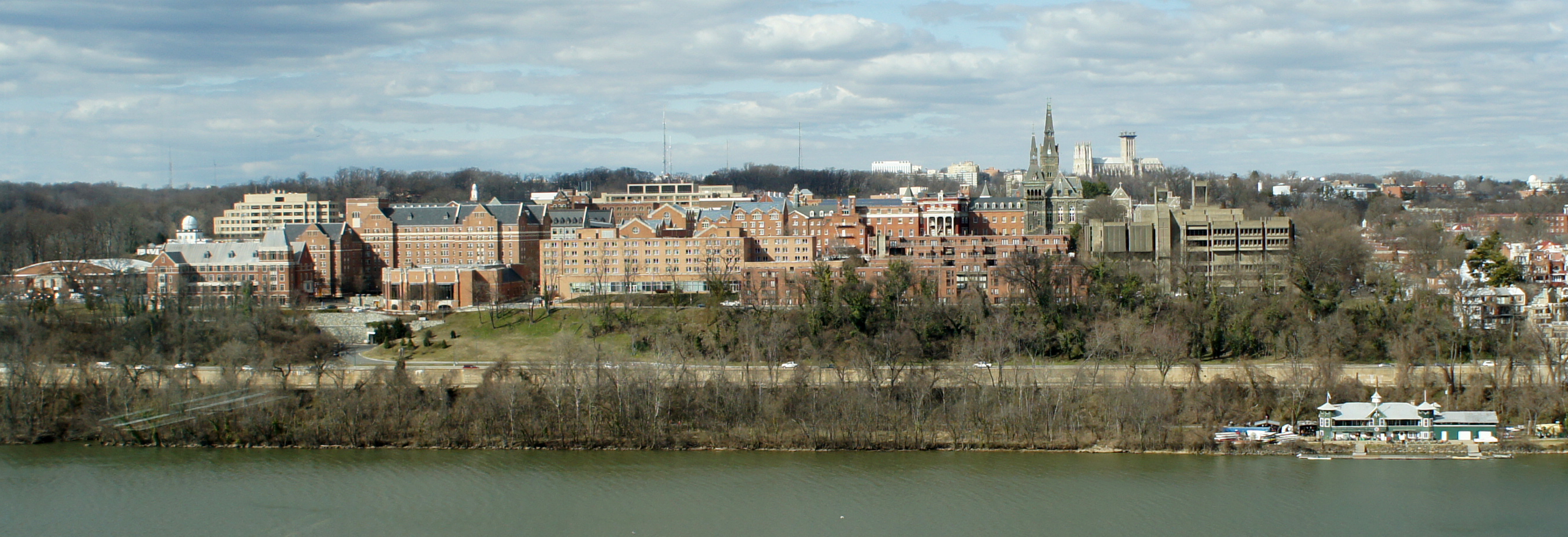 Georgetown University panorama by the Potomac River